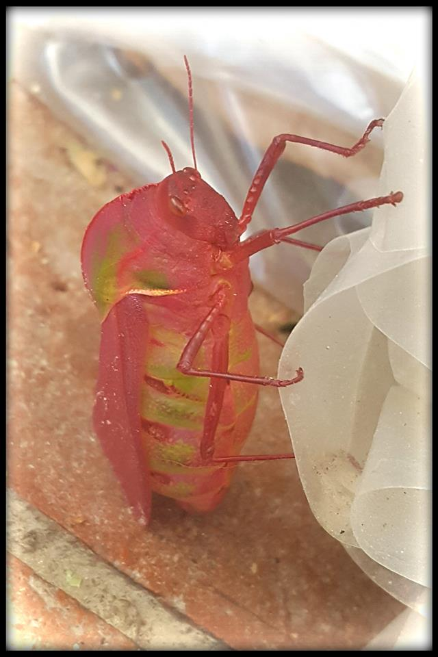 Bullacris discolor - Houwhoek, Overberg, Western Cape, South Africa